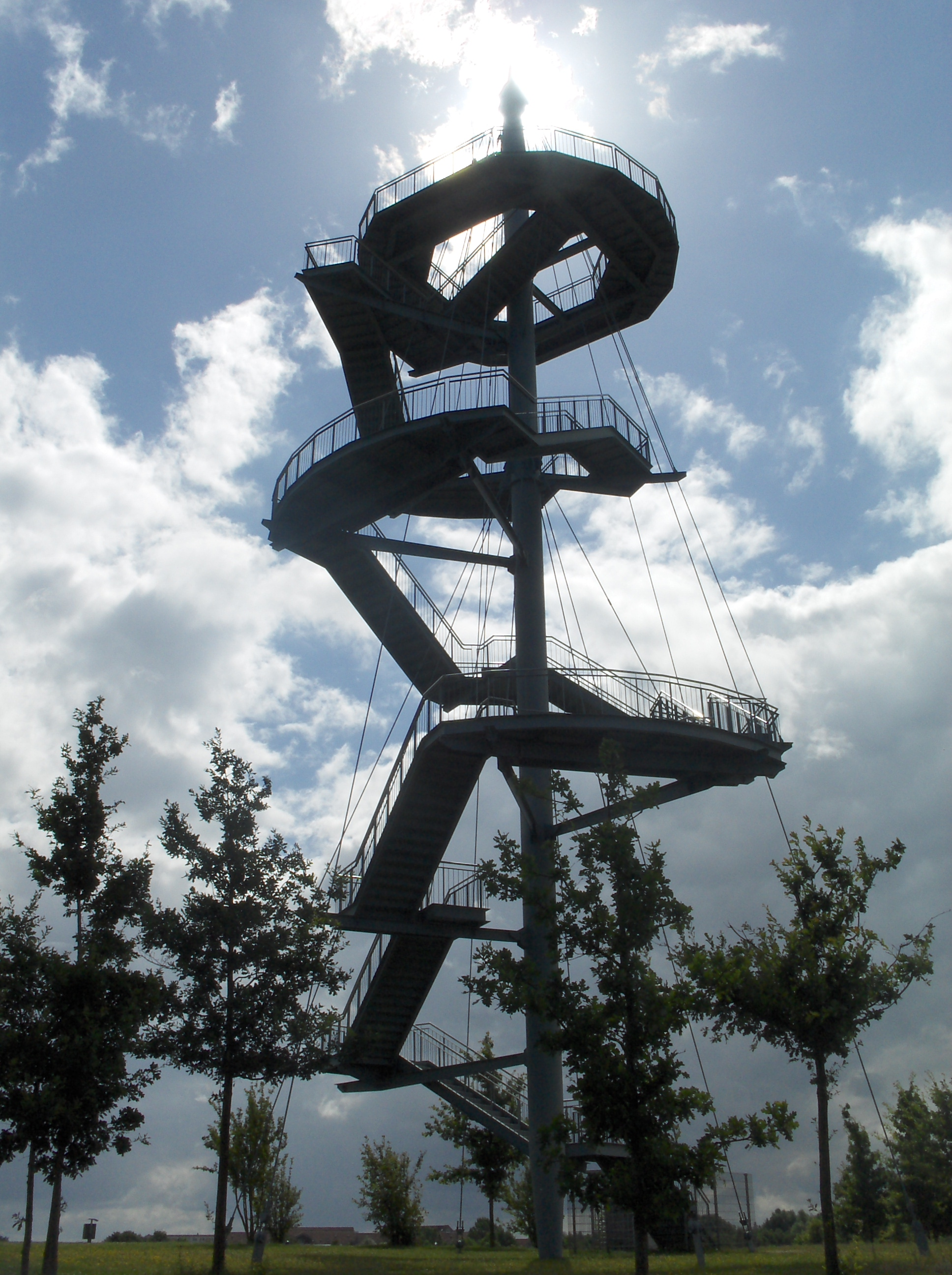 The Wismar observation tower (37 m/121 ft) in the Bürgerpark. It was built for the state horticulture show of Mecklenburg-Vorpommern in 2002.